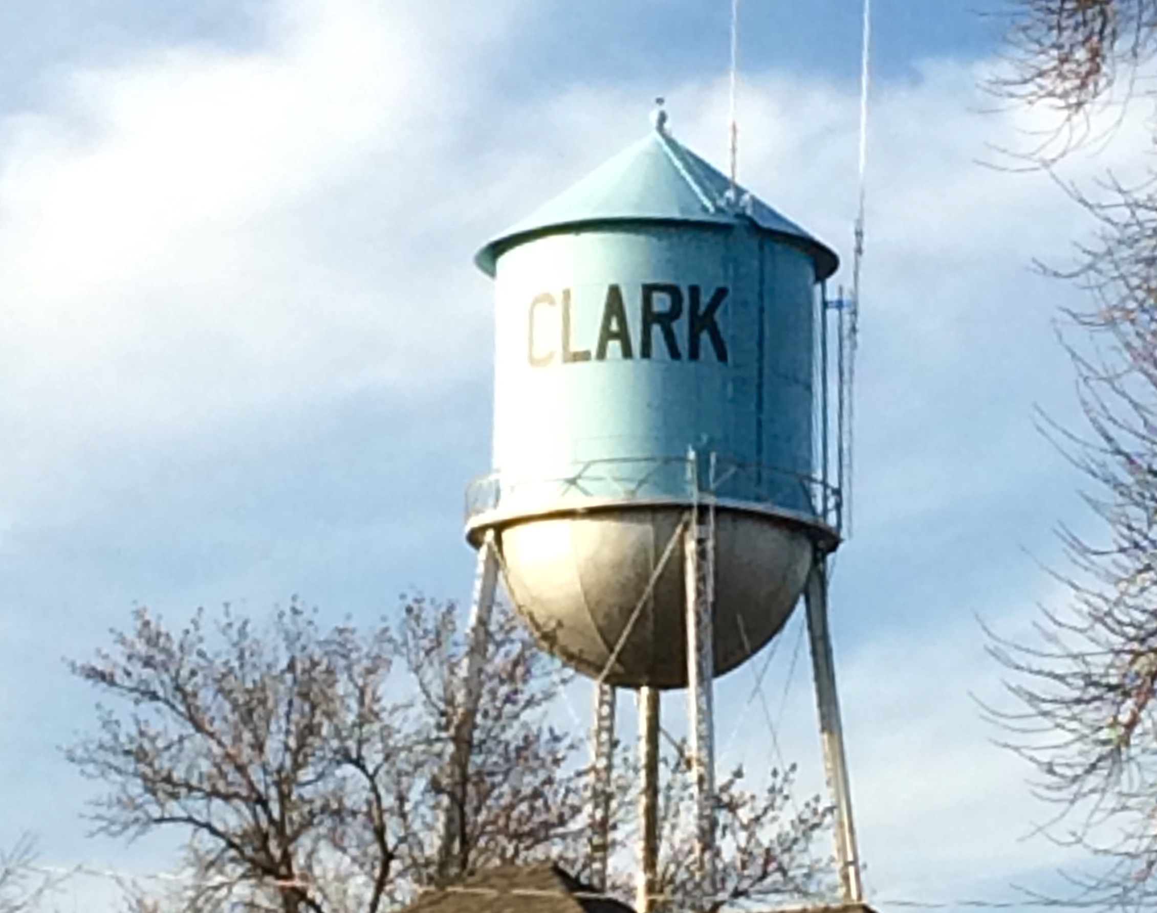 Water Tower located in central Clark, South Dakota. As of 2019, the Water Tower is still painted blue with black letters.